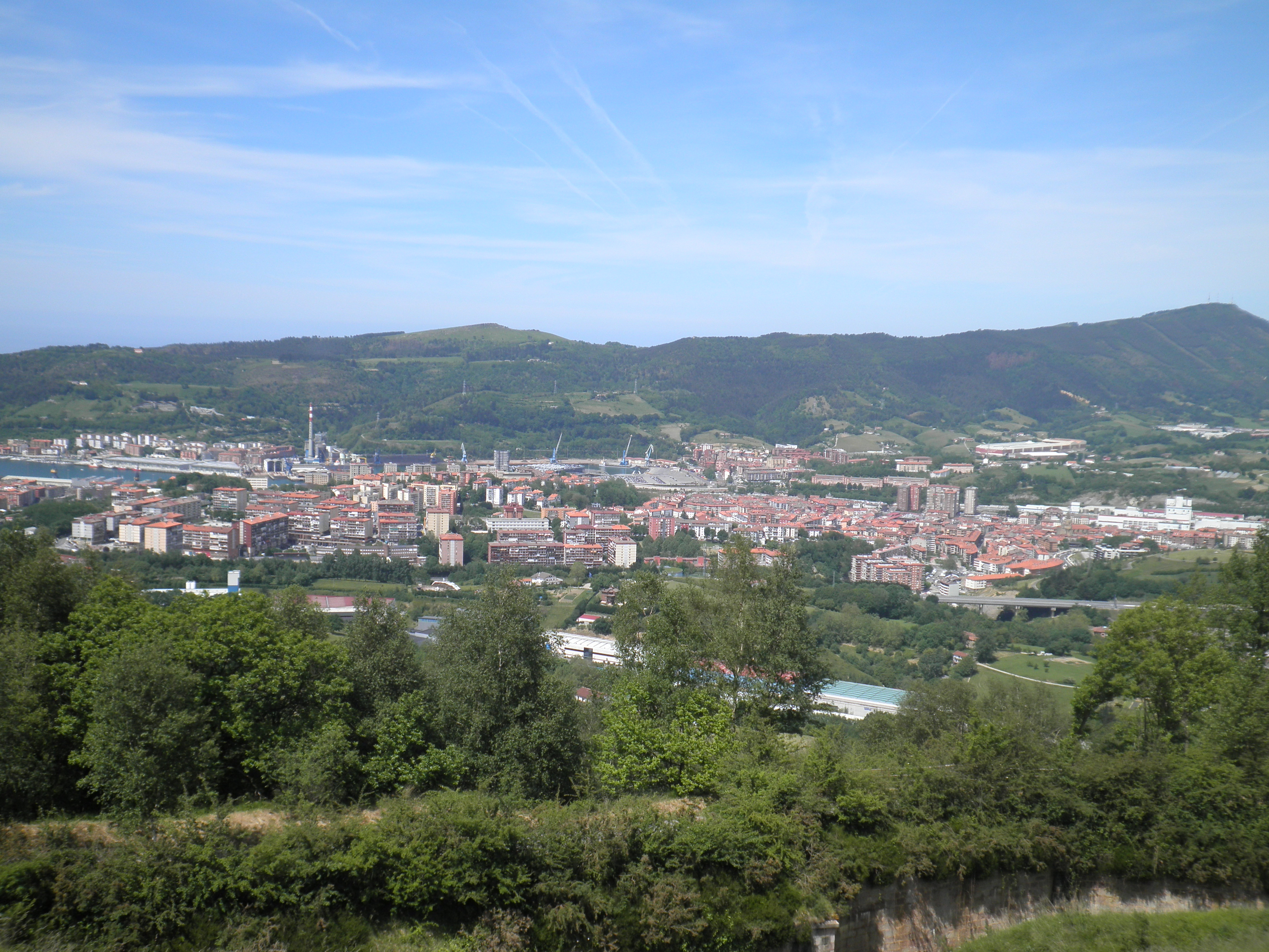 Errenteria from San Marko mountain.